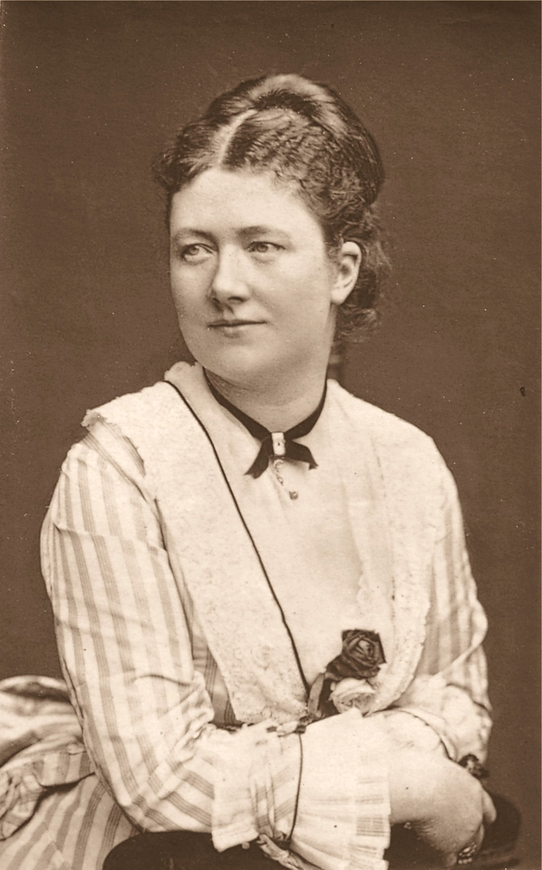 Kate Terry 1844-1924, Mrs. Arthur Lewis, English Actress.